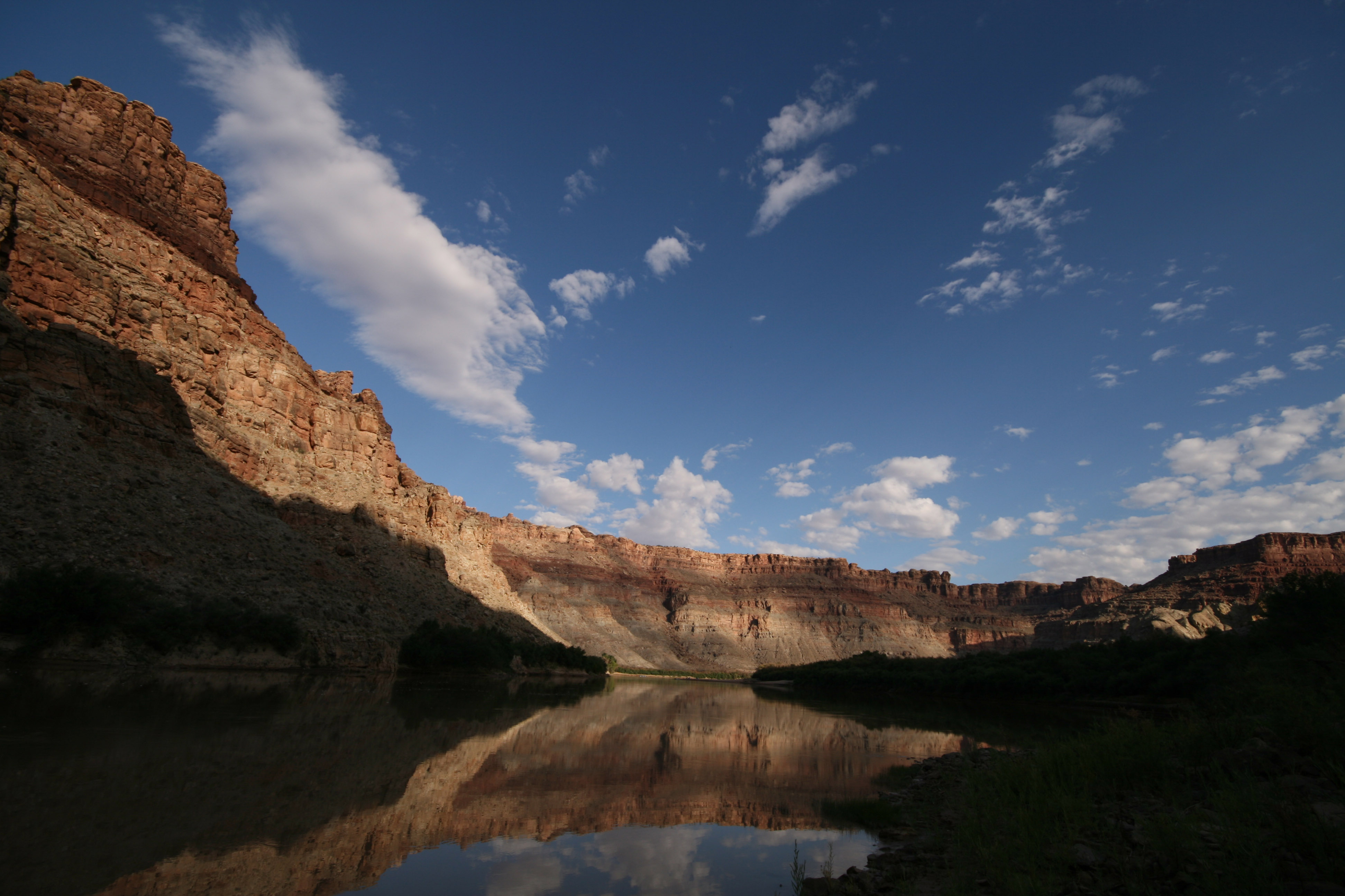 The Colorado River at Sunrise From Spanish Bottom in Cataract Canyon, Canyonlands National Park